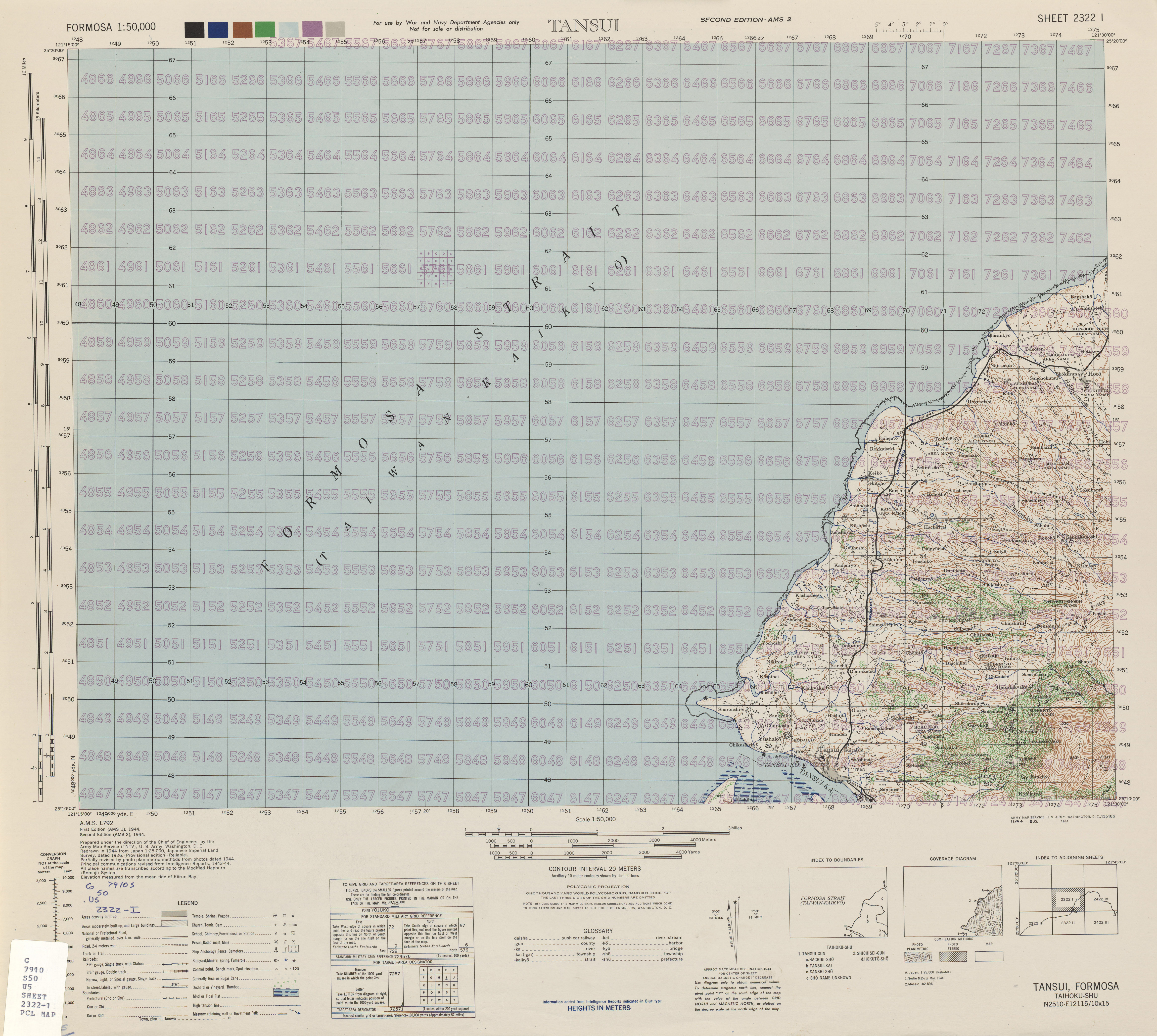 Map from Formosa (Taiwan) 1:50,000 AMS Series L792